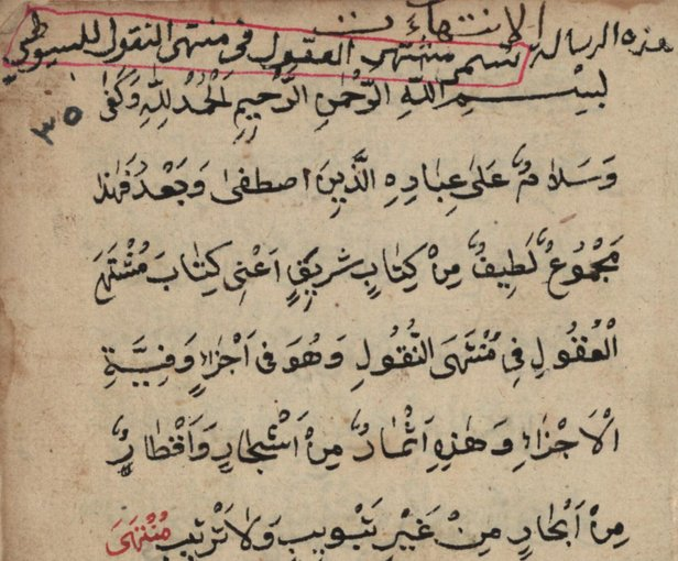 Manuscript of Mushtaha al-‘Uqul fi Muntaha al-Nuqul by al-Suyuti (1445−1505).